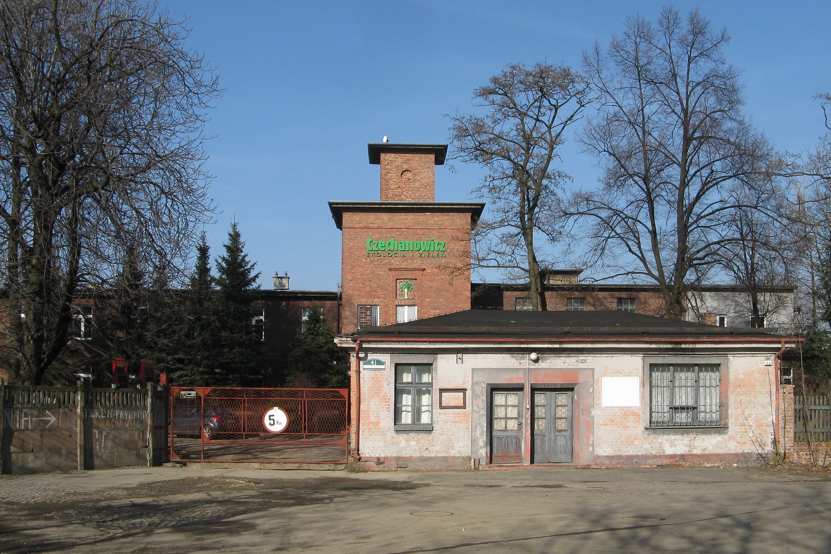 entrance to the Północny shaft complex (Rejon III Michał) of former coal mine Siemianowice in Siemianowice Śląskie-Michałkowice, 41 Bytomska Street